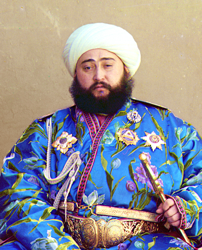 A picture of Alim Khan (1880-1944), Emir of Bukhara, taken in 1911. This is one of the earliest color photographs in existence and was originally taken by Sergei Mikhailovich Prokudin-Gorskii as part of his work to document the Russian Empire. It was taken using three black-and-white exposures, with red, yellow and blue filters respectively, long before color photographic printing existed. The three resulting images were projected using color filters to create a color projection. More recently, the Library of Congress has scanned Prokudin-Gorskii's work and contracted with other firms to produce high-resolution color images from the black and white scans.